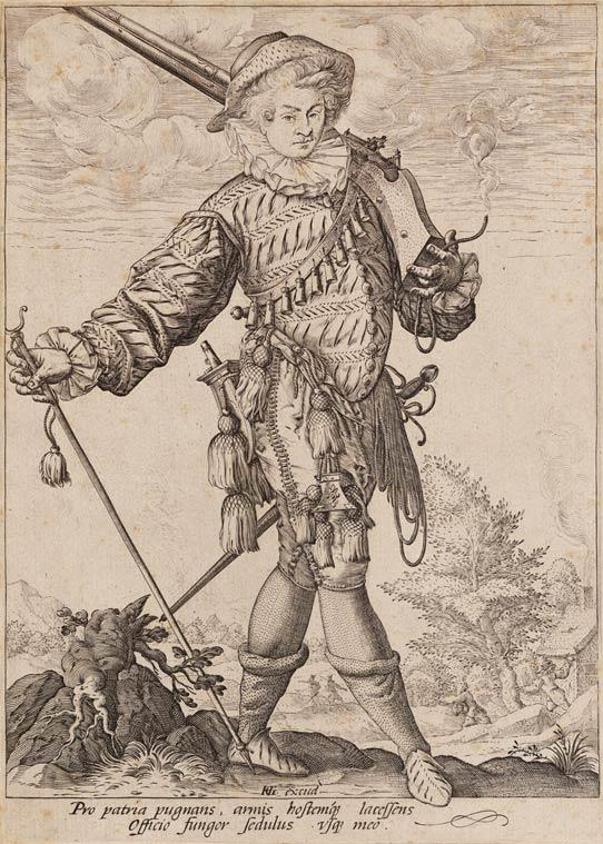 An arquebusier holding an arquebus and a fuse. Part of the series Three servicemen.